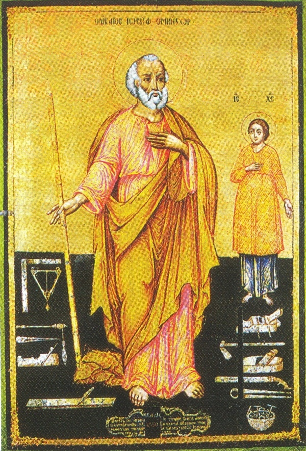 Icon of Saint Joseph with Jesus